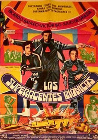 afiche de cine